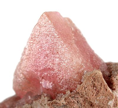 Datolite Locality: Wessels Mine (Wessel's Mine), Hotazel, Kalahari manganese fields, Northern Cape Province, South Africa (Locality at ) Size: miniature, 4.2 x 3.8 x 2.2 cm Datolite A rare pink datolite, fairly large for the material produced, and with as intense color as I have ever sene in sucha specimen. They were very uncommon, from the mid 1980s.